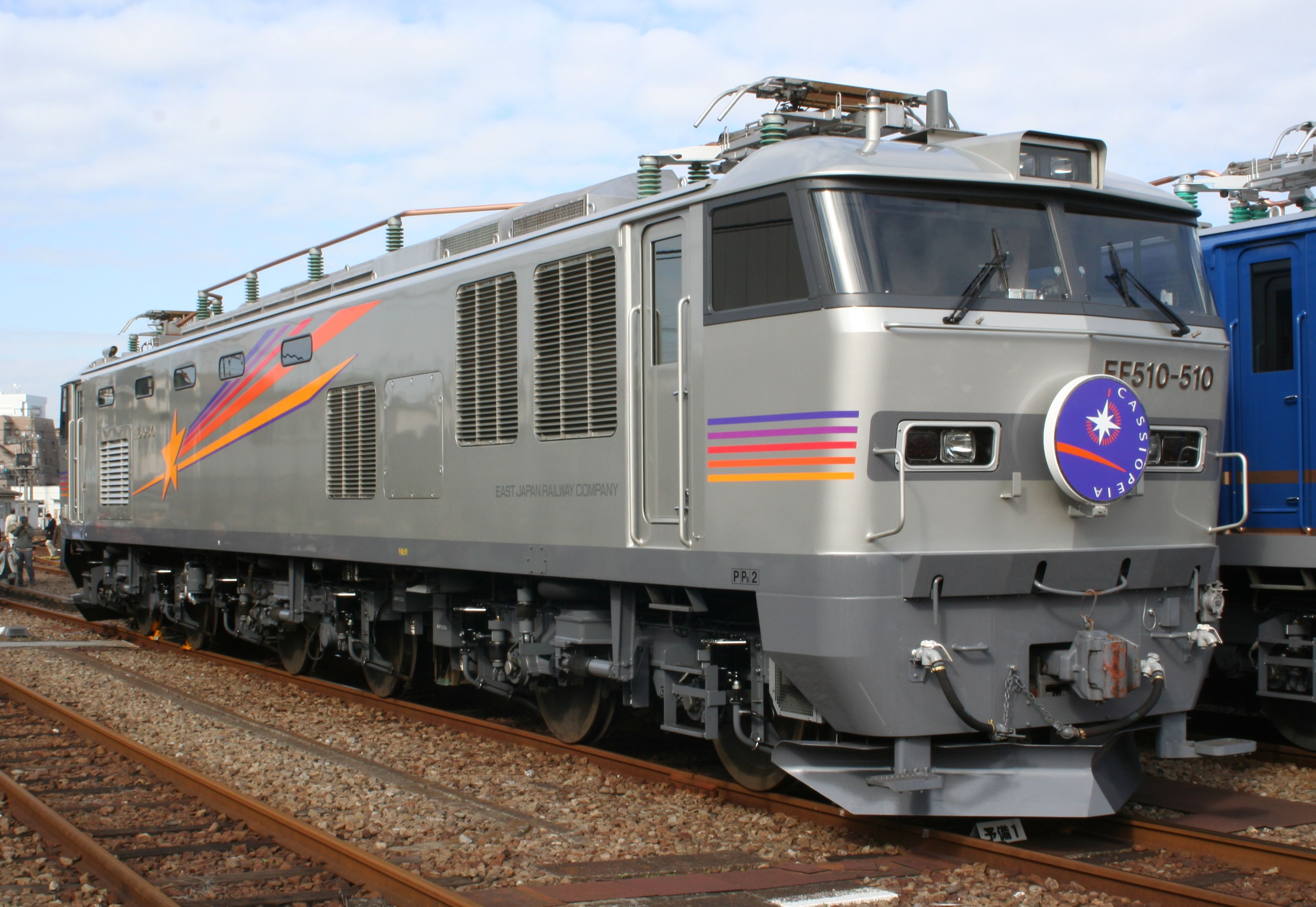 JR East Class EF510-500 electric locomotive EF510-510 in Cassiopeia silver livery at Oku Depot Open Day in Tokyo